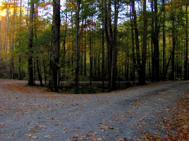 The site of the former logging town of Tremont (fl. 1926-1938) at the end of Tremont Road in the Great Smoky Mountains of East Tennessee, located in the Southeastern United States. The site, located at the confluence of Lynn Camp Prong and Thunderhead Prong, is now a parking lot for the Middle Prong Trail.